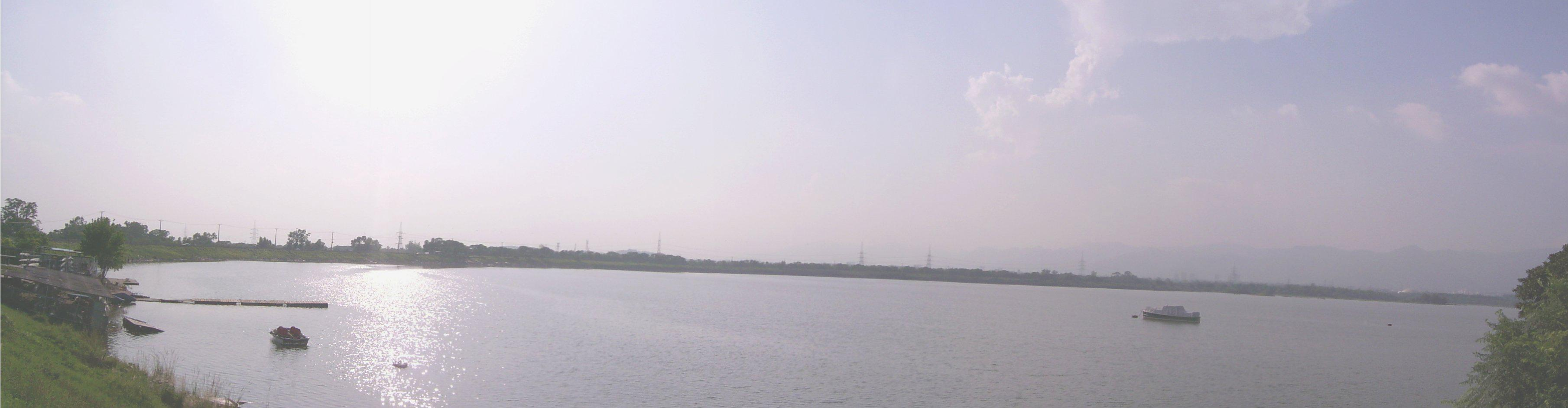 I Take it by MySelf on a trip to Islamabad & Rawalpindi on 9th September 2007